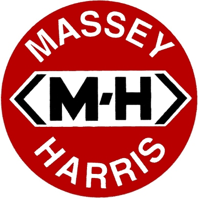 Massey-Harris company logo c. 1952 graphics generated